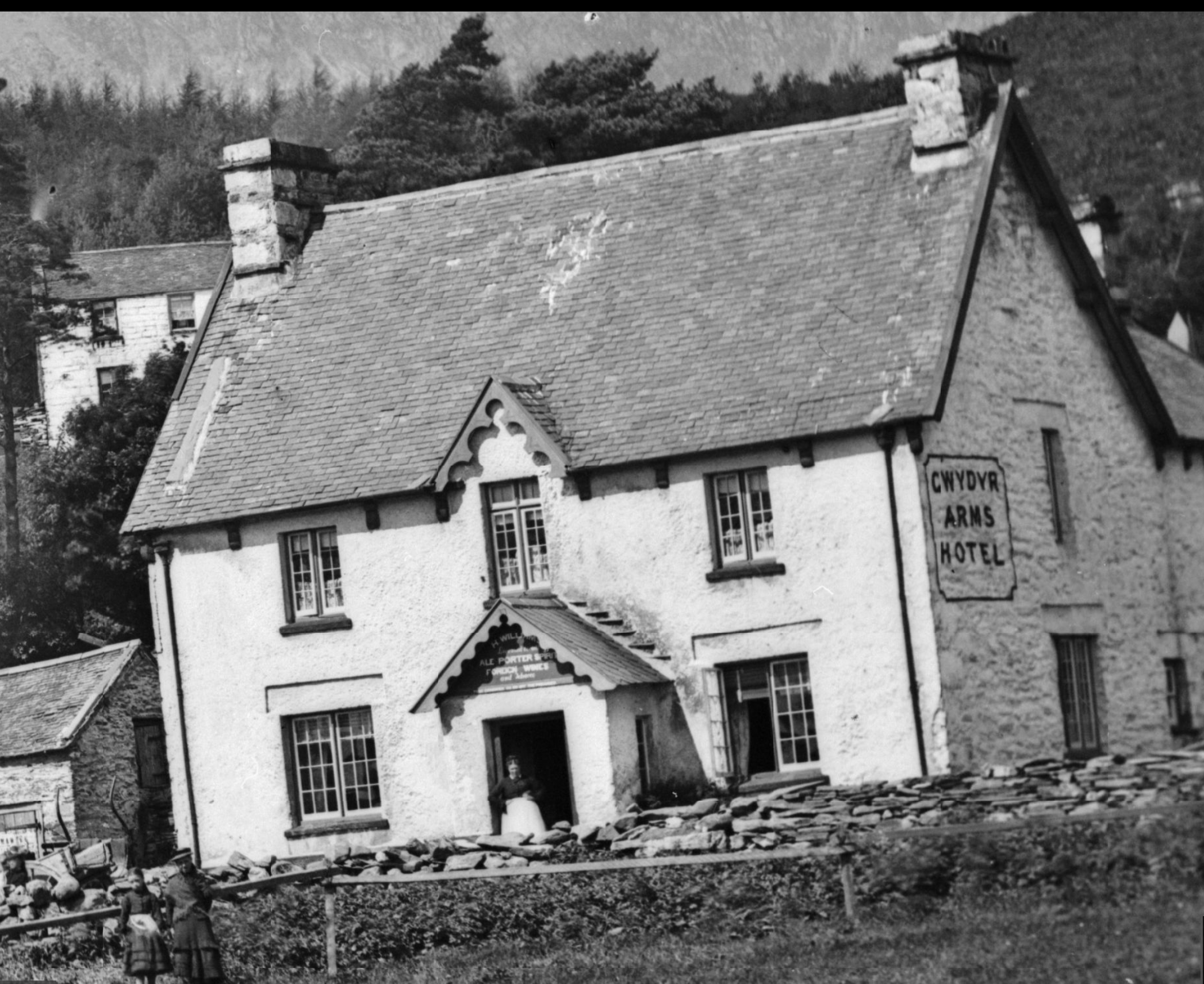 The Gwydir Arms Hotel in the centre of the village of Dolwyddelan, taken around 1875